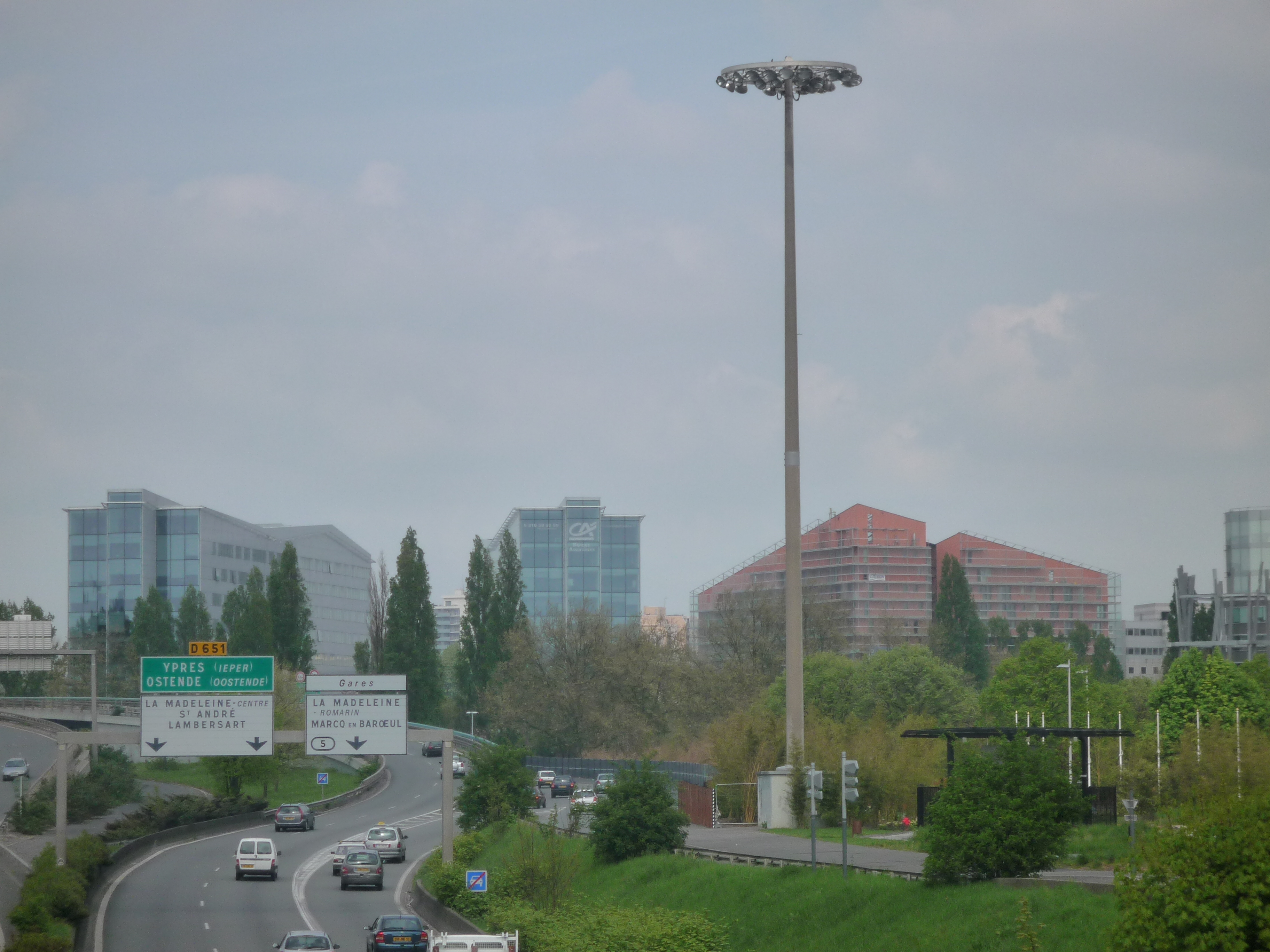 Euralille, Lille, France.